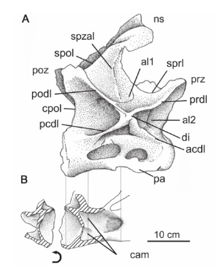 Fig. 2. Cathartesaura anaerobica gen. et sp. nov. Posterior cervical vertebra. A, right lateral view; B, detail of the centrum showing internal cavities. Abbreviations: acdl, anterior centrodiapophyseal lamina; al1, accesory lamina 1; al2, accesory lamina 2; cam, camerae; cpol, centropostzygapophyseal lamina; di, diapophysis; ns, neural spine; pa, parapophysis; pcdl, posterior centrodiapophyseal lamina; podl, postzygodiapophyseal lamina; poz, postzygapophysis; prdl, prezy-godiapophyseal lamina; prz, prezygapophysis; spol, spinopostzygapophyseal lamina; sprl, spinoprezygapophyseal lamina; spzal, suprapostzygapophyseal accesory lamina.